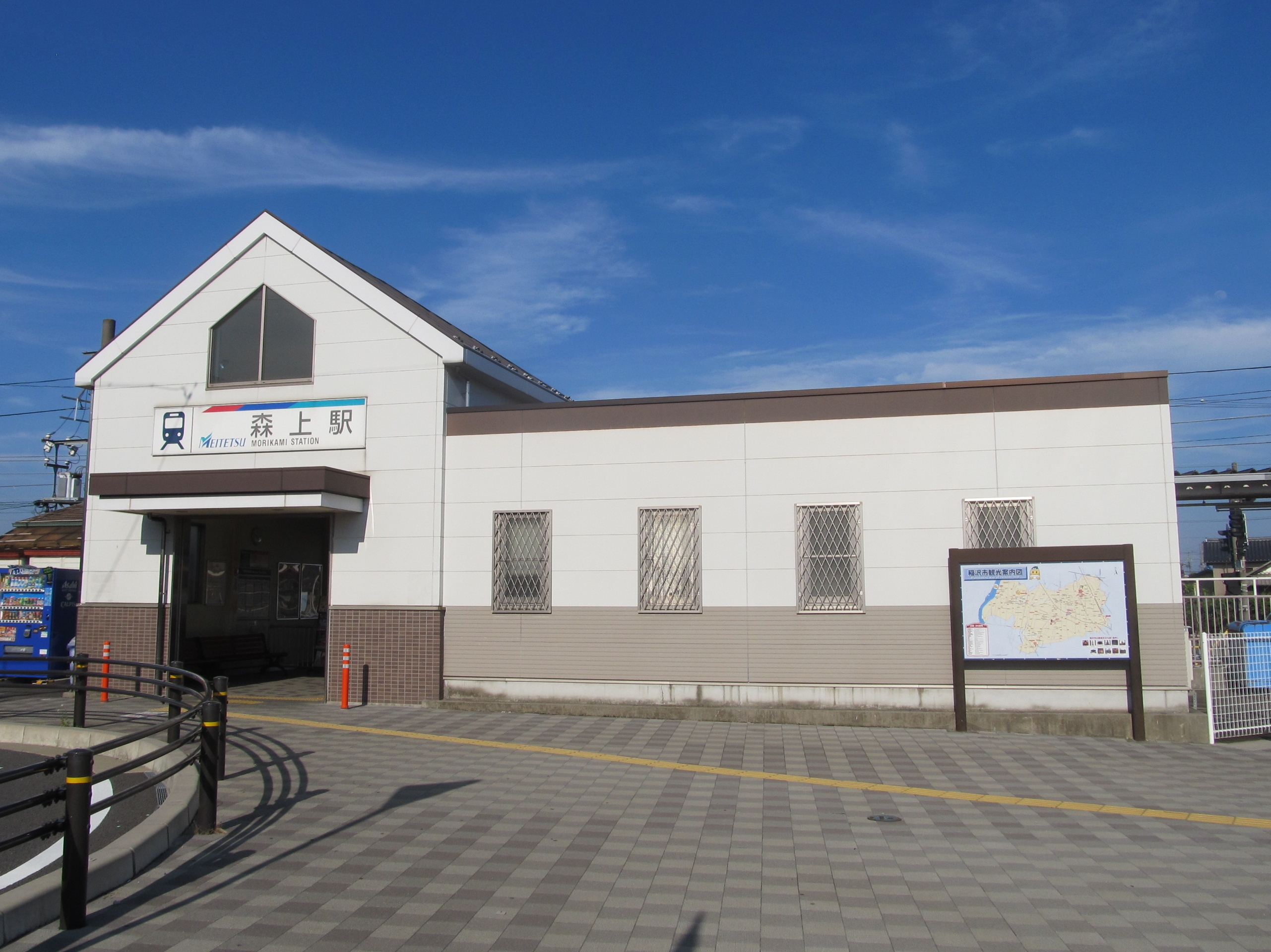 Nagoya Railroad Bisai Line Morikami Station Building.